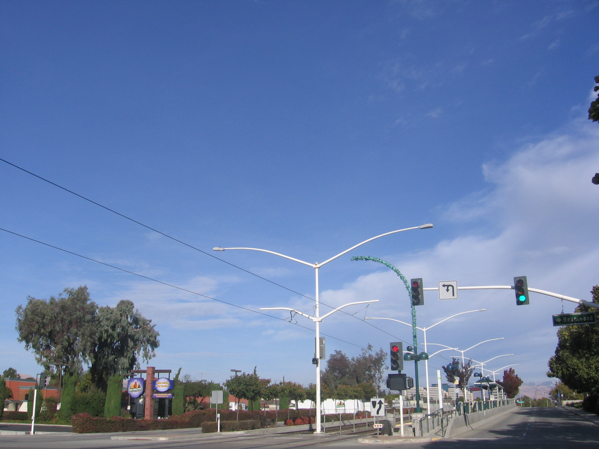 The Reamwood (VTA) light rail station in Santa Clara, California, USA.